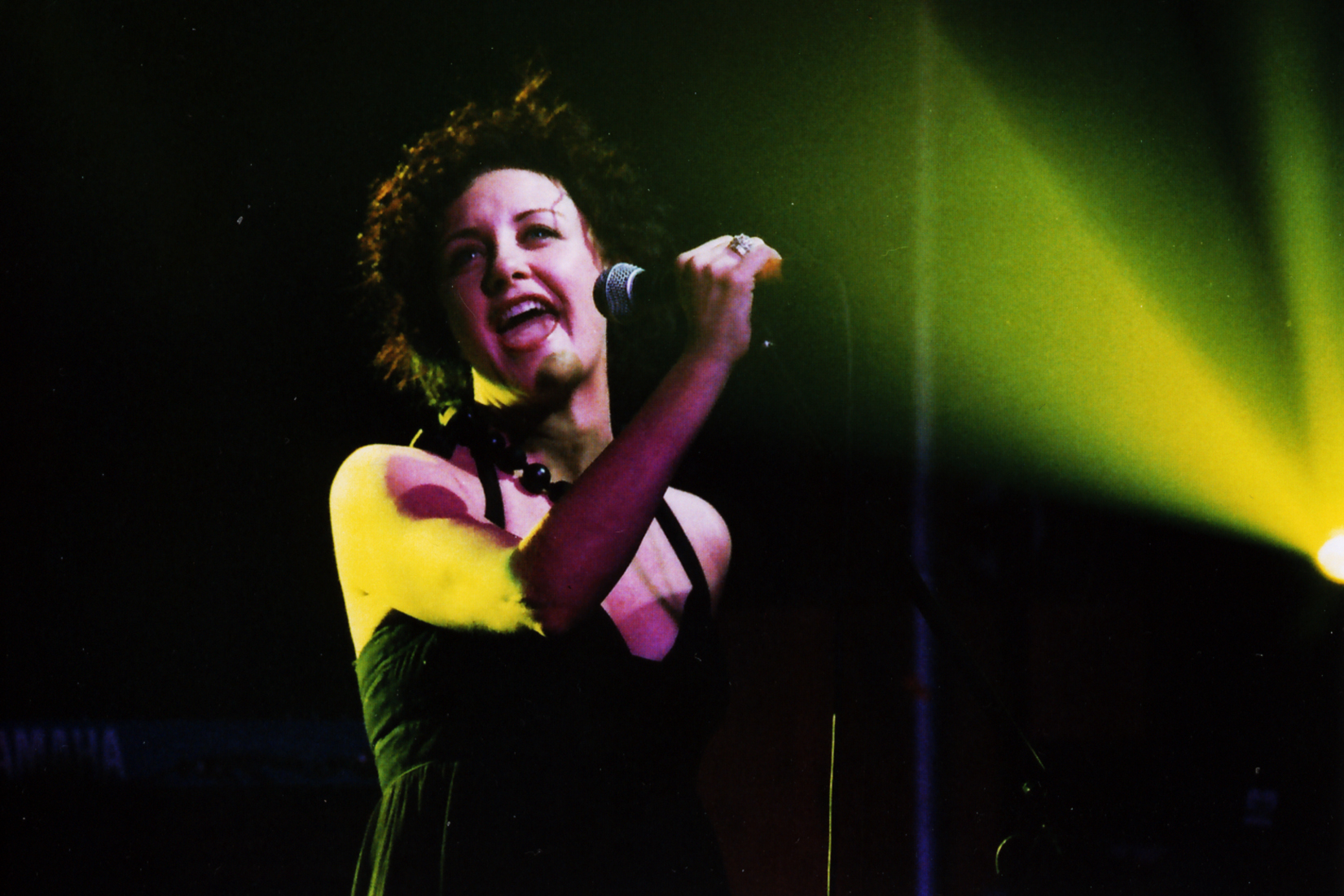 Lorraine McIntosh from Deacon Blue performing live